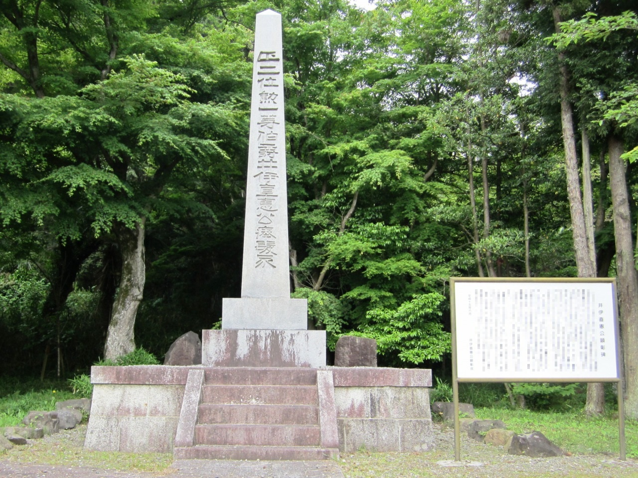 The monument ofIi Naonori in Hikone, Shiga.